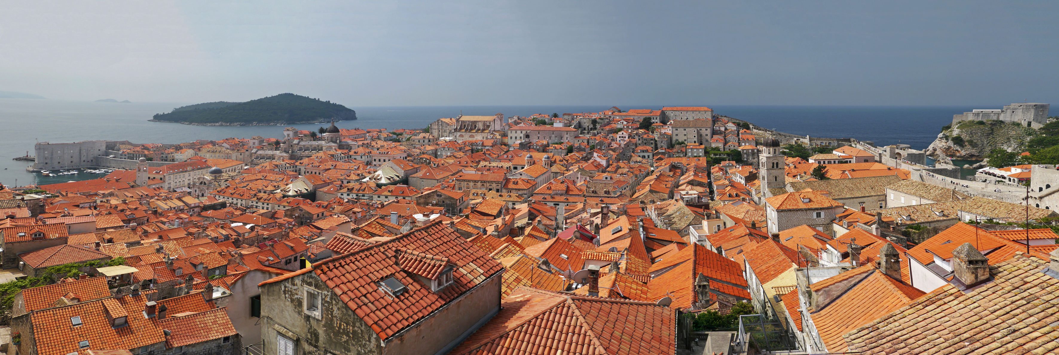 dubrovnik panorama 2011 croatia adriatic sea isthmus of dubrovnik day